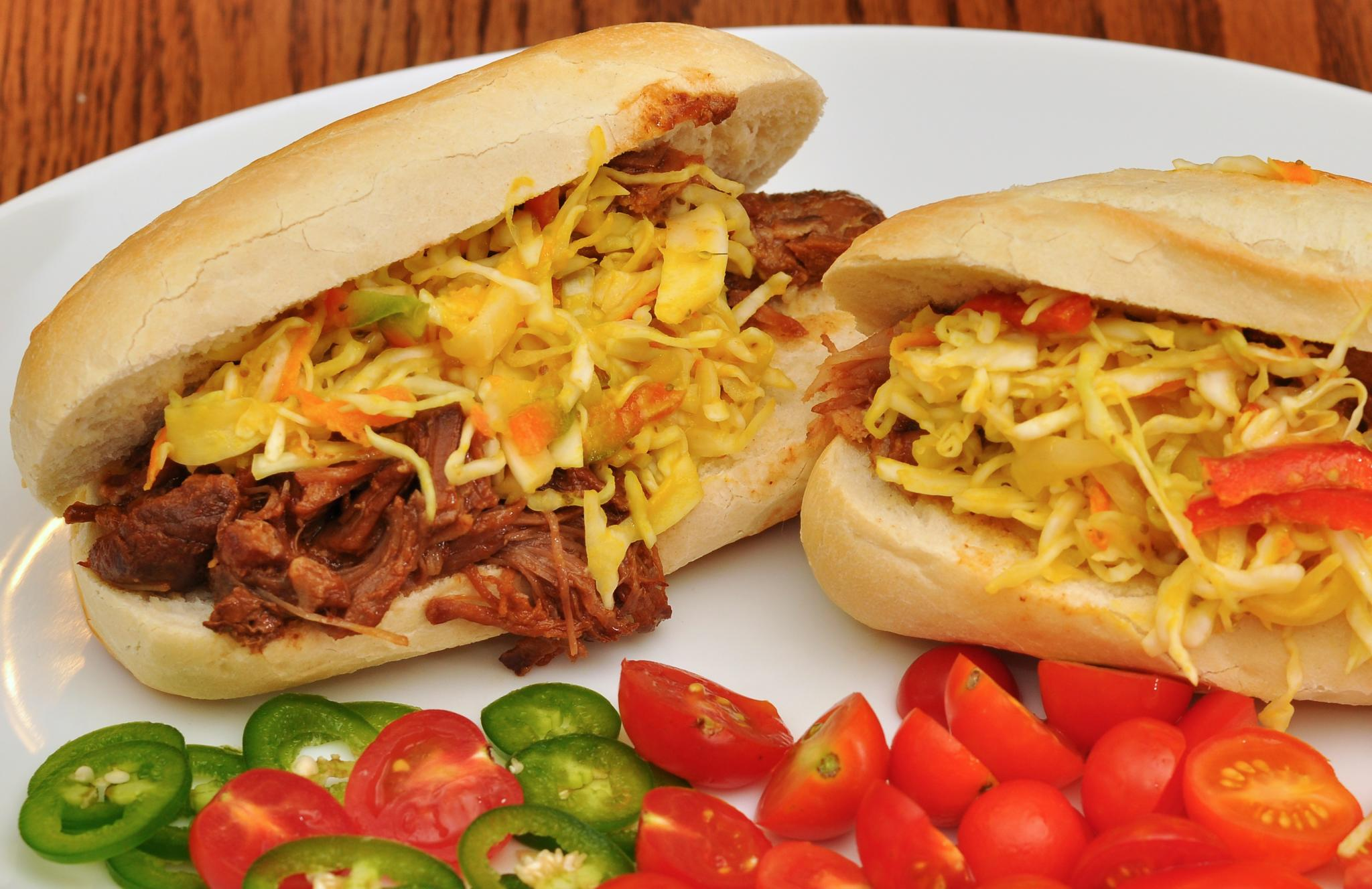 Mmm... BBQ'd pork on a fresh hoagie roll